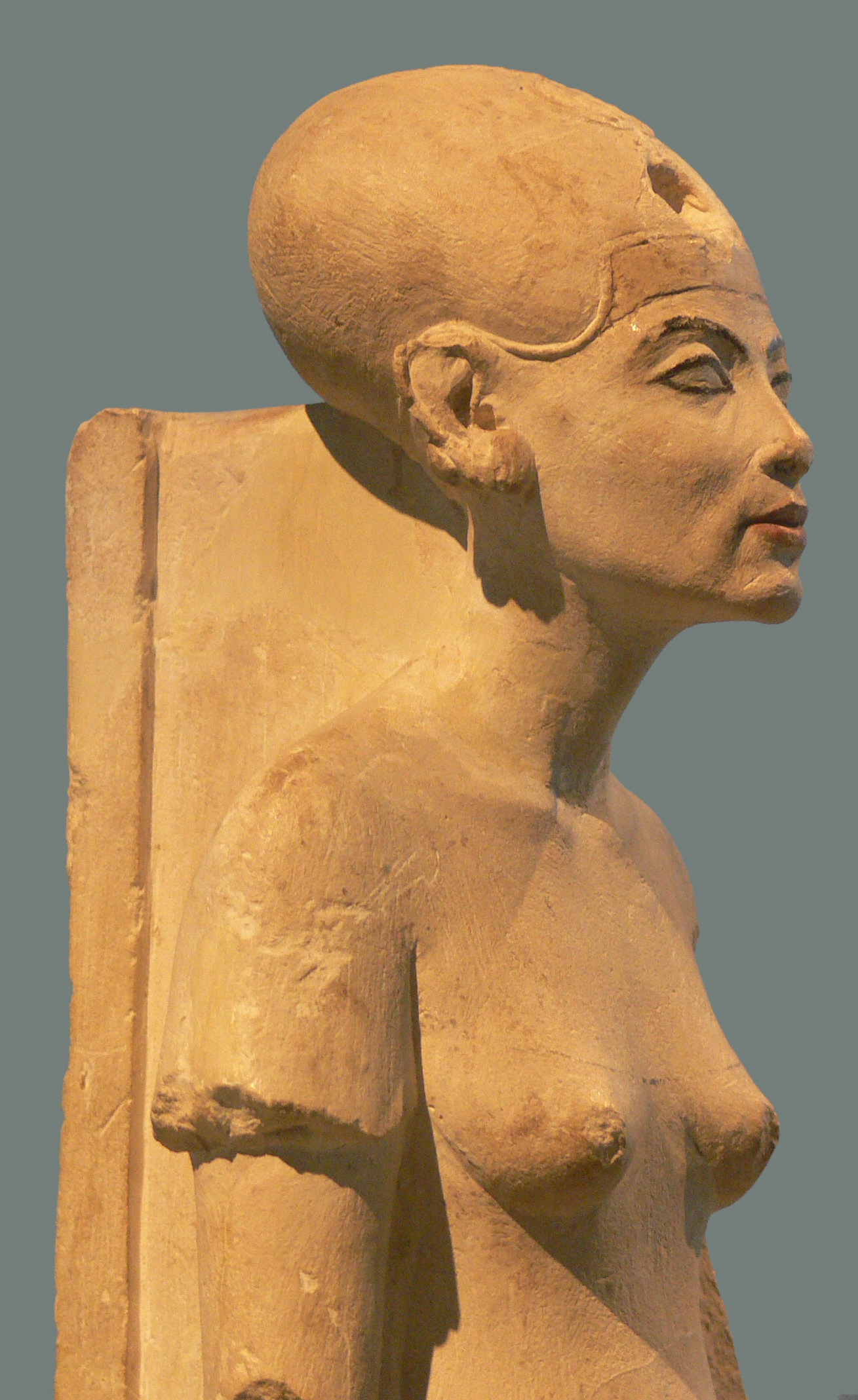 Standing-striding figure of Nefertiti; Limestone; Amarna; New Kingdom, 18th dynasty; c. 1345 BC. Egyptian Museum Berlin, Inv. no. 21263.